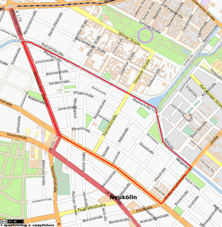 Kreuzkölln